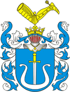 Herb Nowina Clan File:POL COA Nowina.svg is a vector version of this file. It should be used in place of this raster image when not inferior. File:Herb Nowina.PNG File:POL COA Nowina.svg For more information, see Help:SVG. In other languages